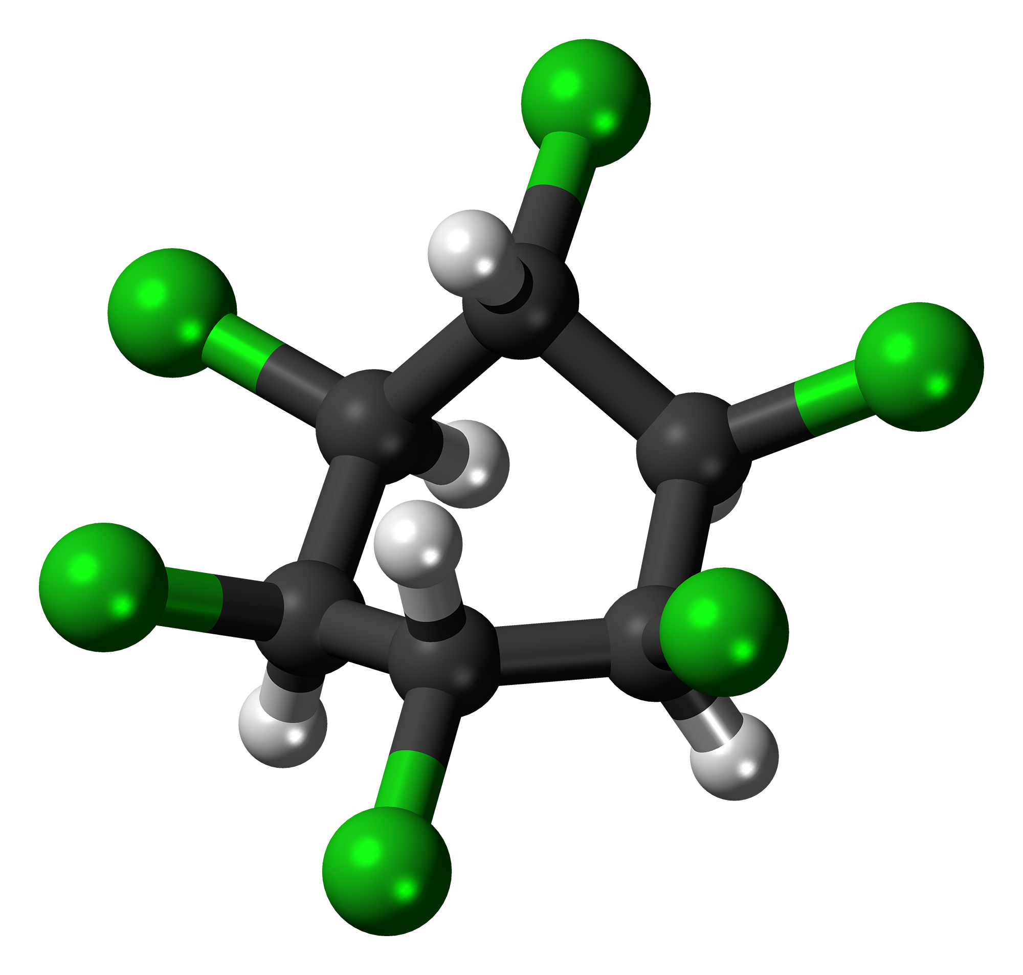 Ball-and-stick model of the gamma-hexachlorocyclohexane molecule, also known as lindane, an insecticide. This image shows the boat conformation. Color code: Carbon, C: black Hydrogen, H: white Chlorine, Cl: green